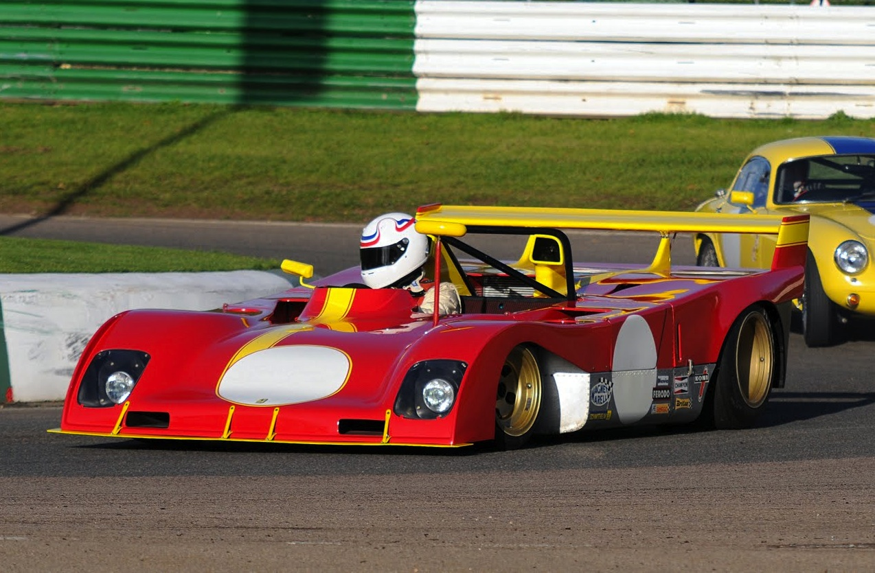 A Ferrari 312PB rounds the hairpin at Mallory Park, November 2009.